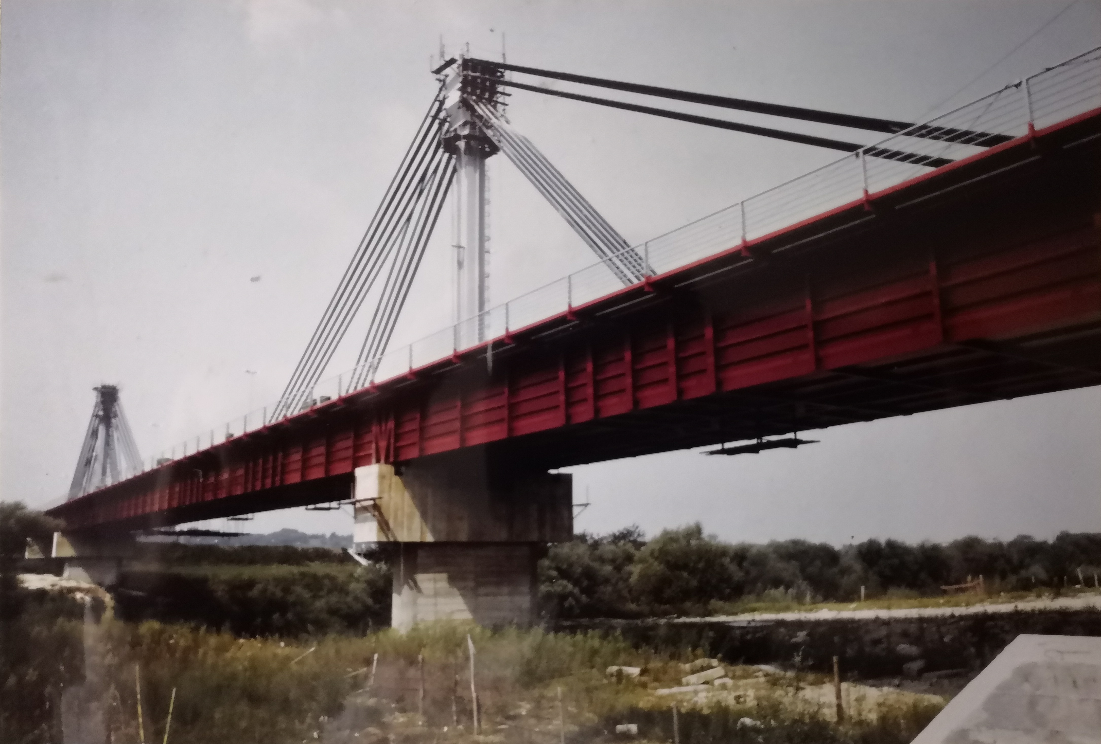 Water Bridge over Tiber